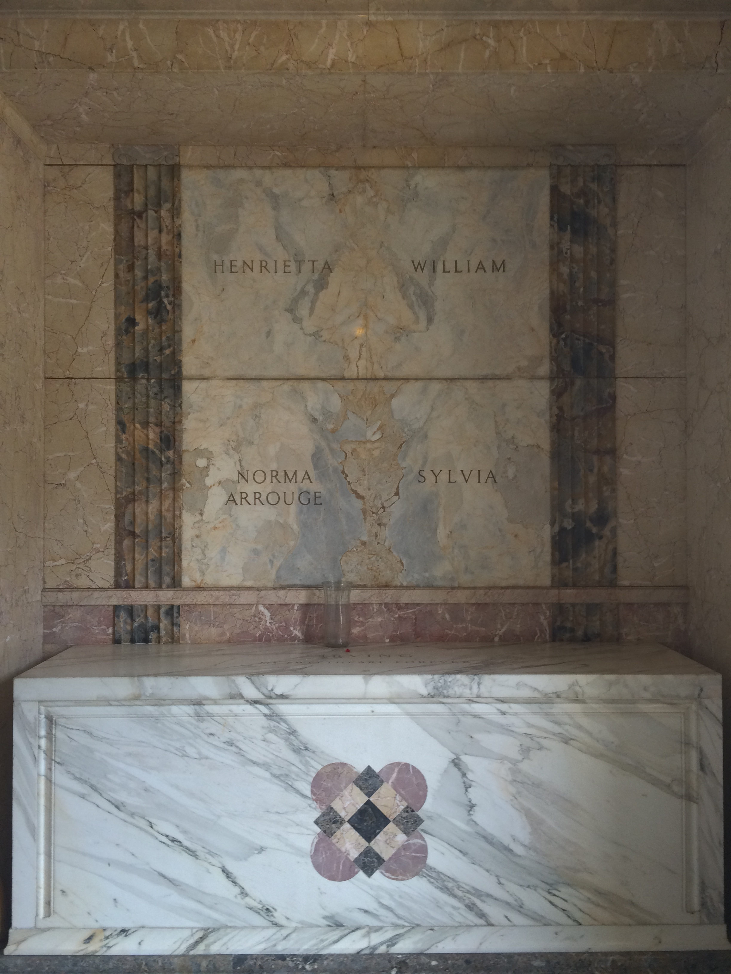 Crypt of Norma Shearer (inscribed with her married name, Norma Arrouge) in the Great Mausoleum, Forest Lawn Glendale.